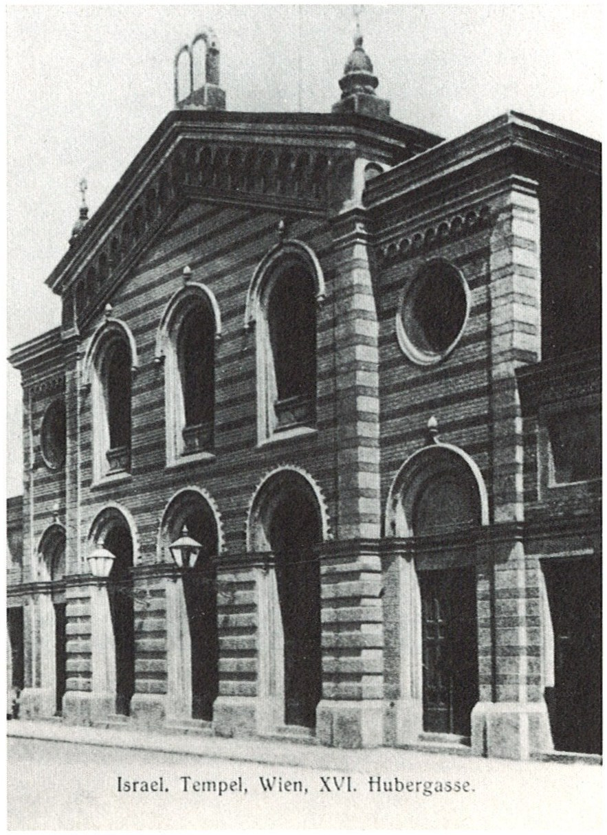 Photo of the Ottakringer Tempel in Vienna.